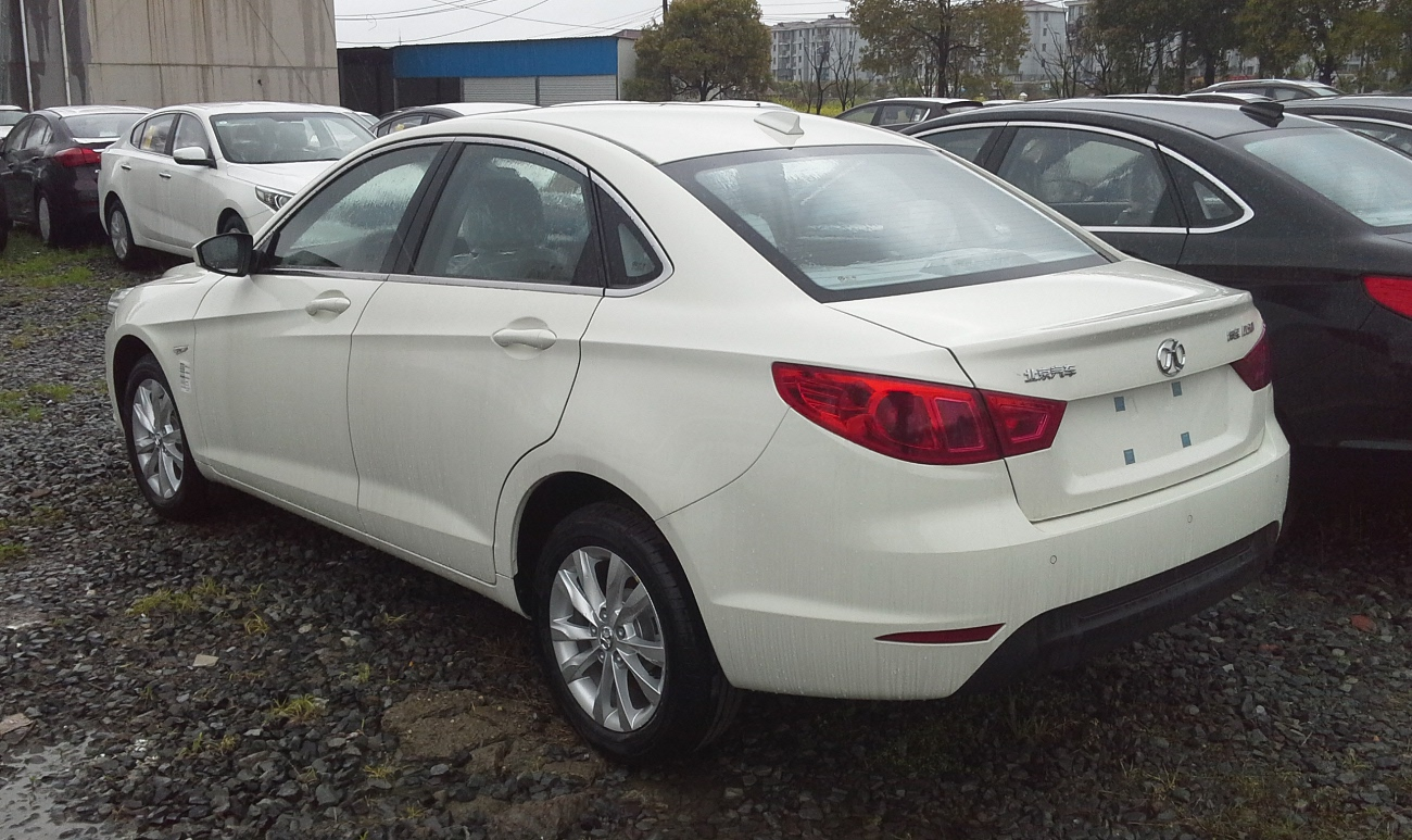 Senova D50 photographed in Shanghai, China.